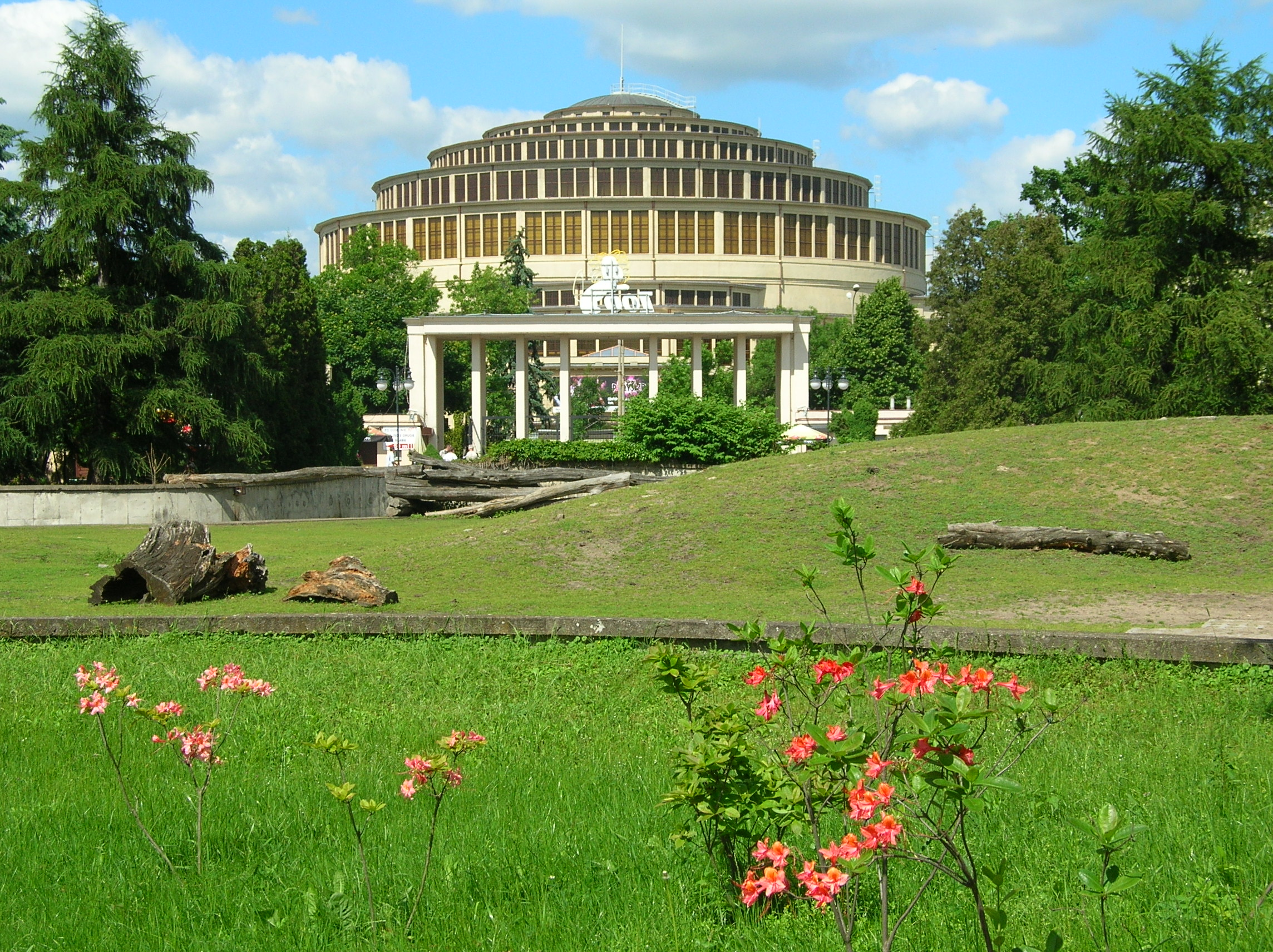 Centennial Hall after renovation in 2009 and gate to Zoo in Wrocław.